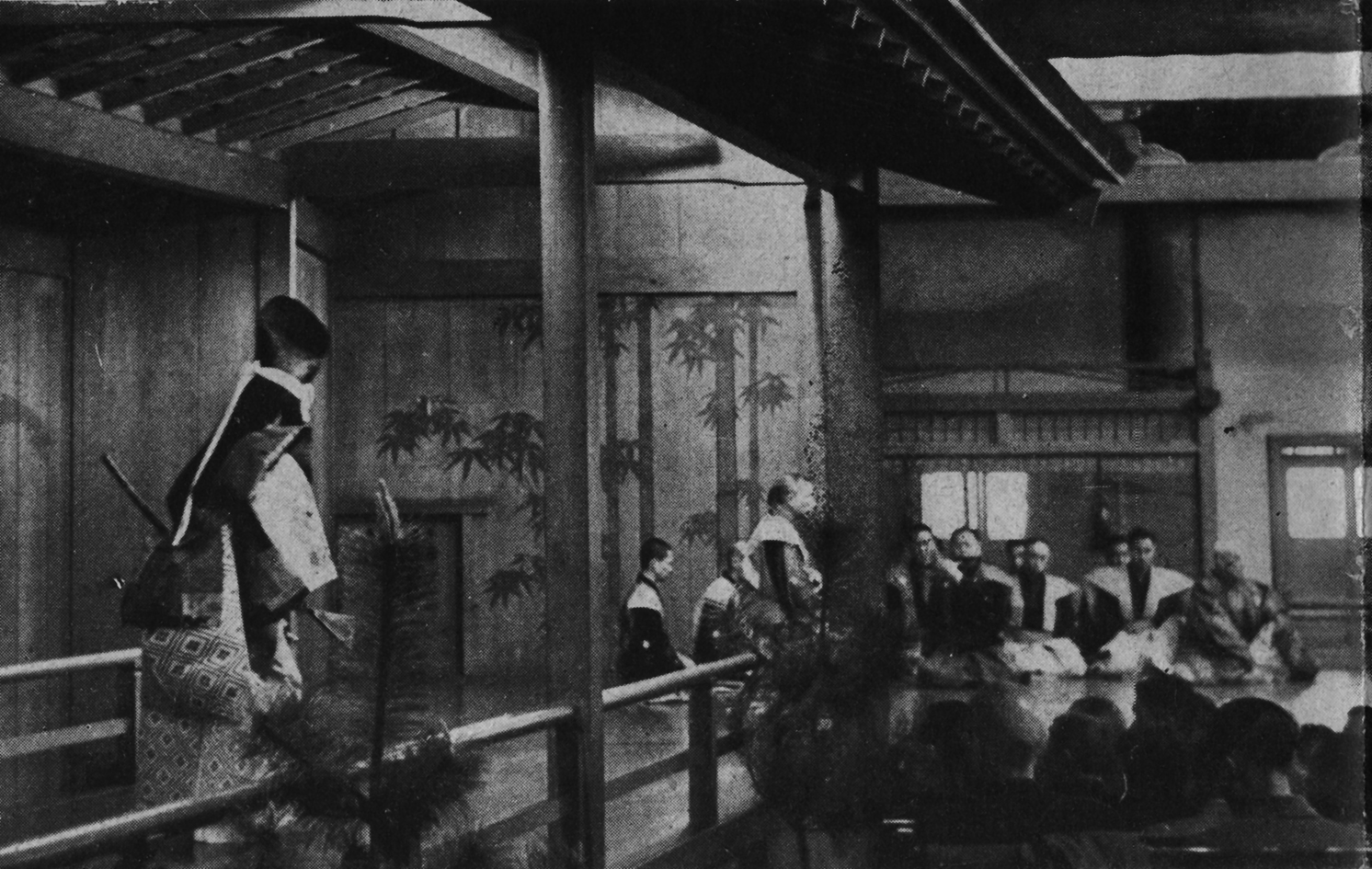 stage photo: Noh play Kiyotsune, SAKURAMA Kyusen